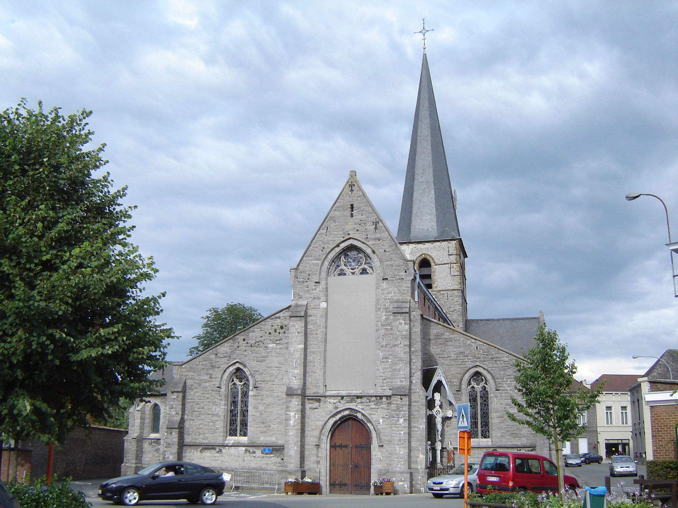 Church of Our Lady of Mount Carmel, in Berchem, Kluisbergen, East Flanders, Belgium.